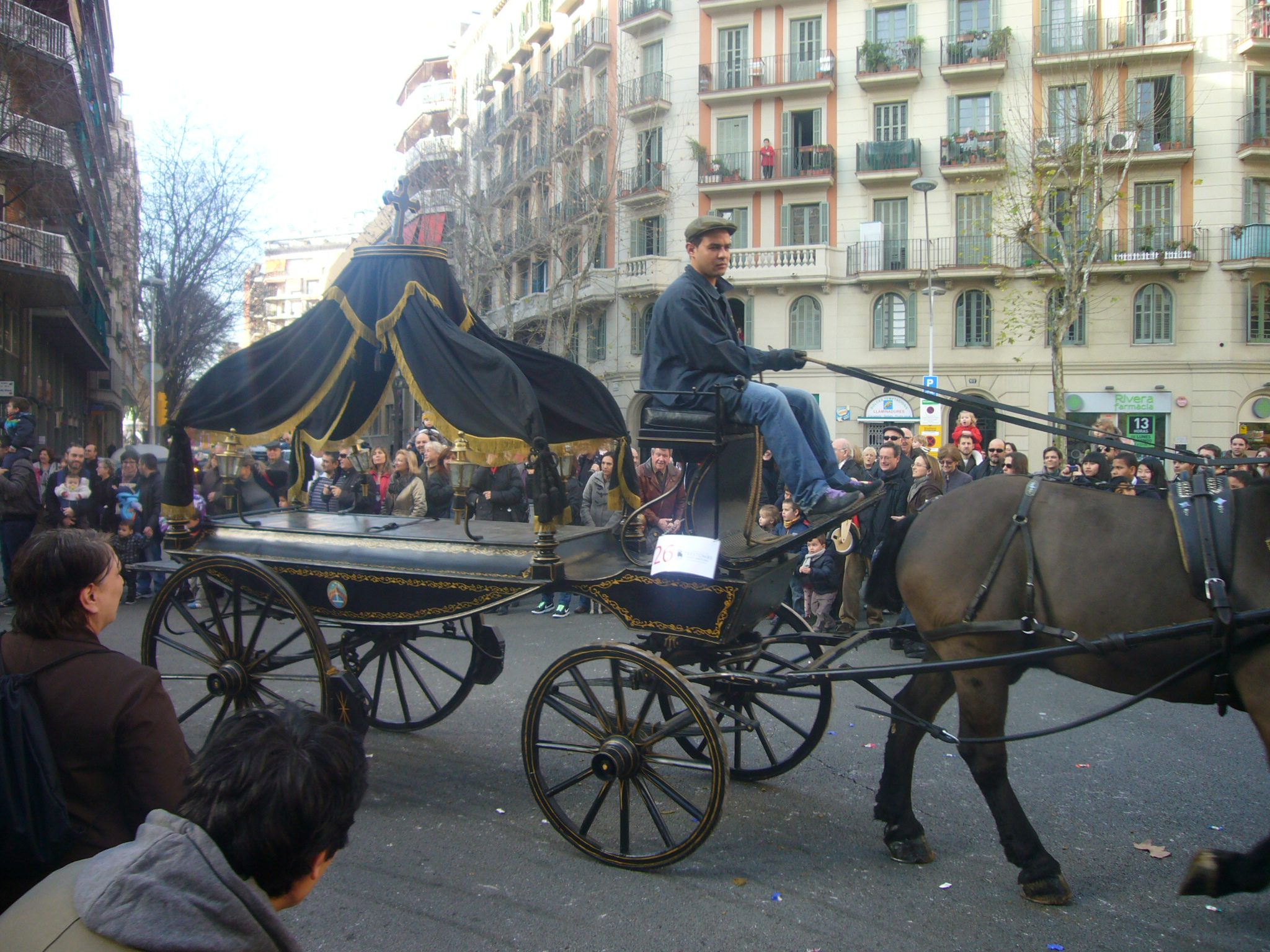 Tres Tombs festival in Sant Antoni neighborhood, Barcelona, January 21, 2012. Funeral carriage